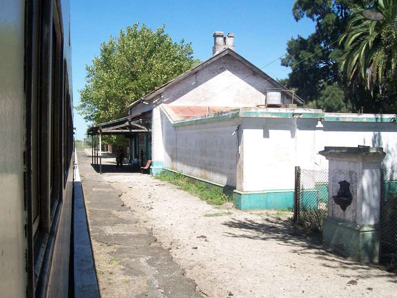 Parravicini train station